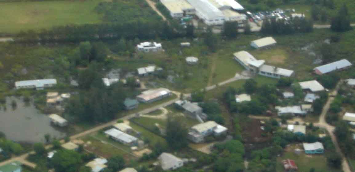 Aerial view of ʻAtenisi institute